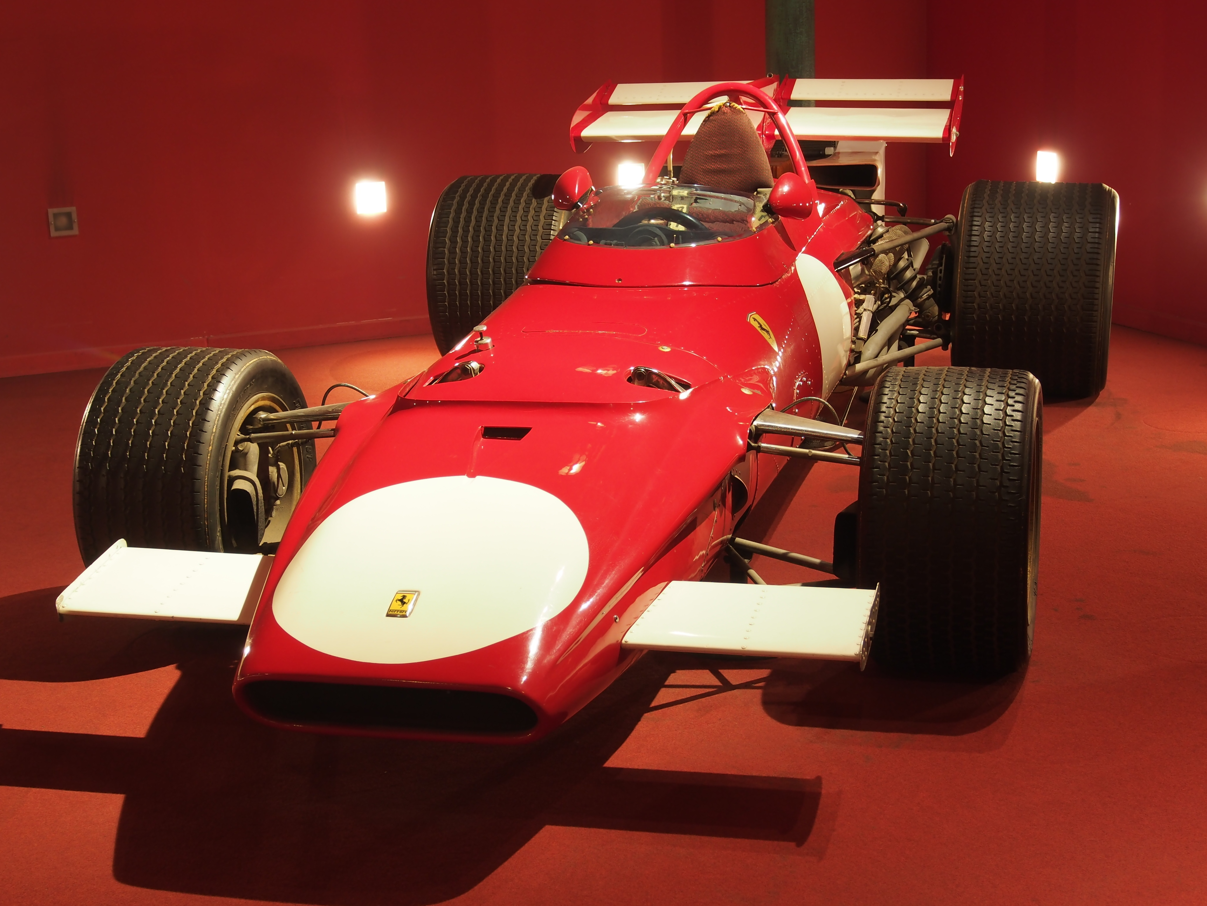 Ferrari 312 B s/n 002. Photographed at the Cité de l’Automobile, Musée national de l’automobile, Collection Schlumpf, Mulhouse, France.